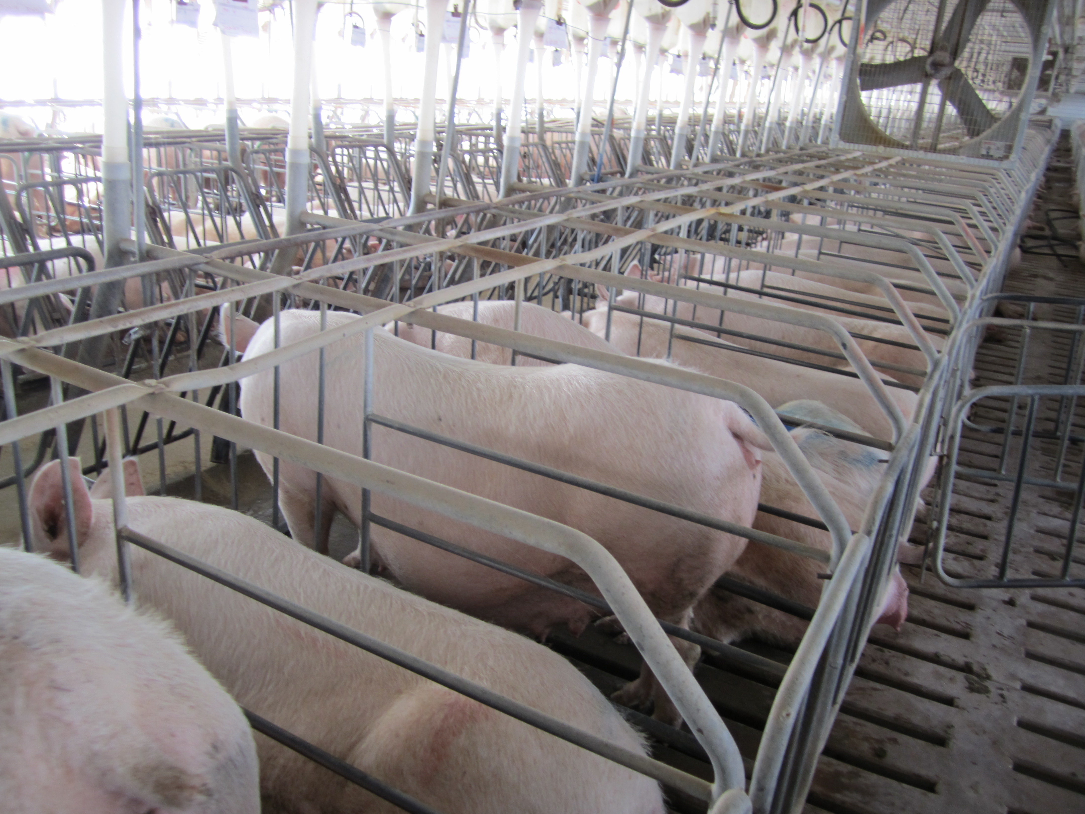 Smithfield Foods gestation crates, Smithfield Foods/Murphy Brown pig breeding facility, Waverly, Virginia, United States [1]